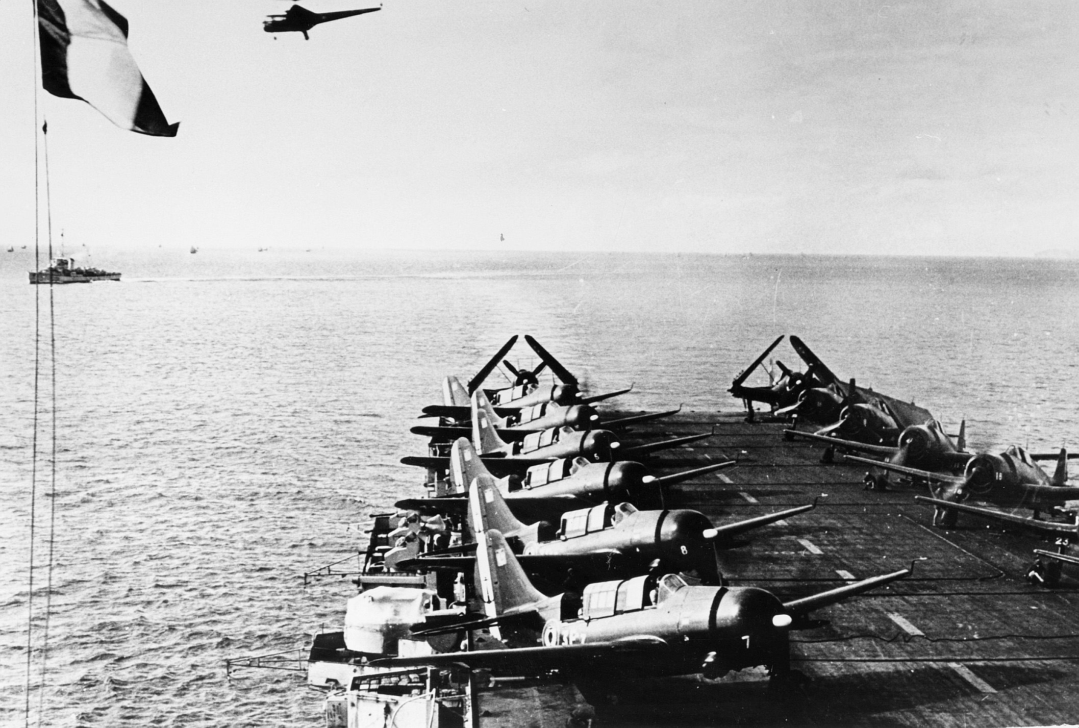 Eight Curtiss SB2C-5 Helldiver dive bombers (Escadrille 3F) and six Grumman F6F-5 Hellcat fighters (Escadrille 1F) on the flight deck of the French aircraft carrier Arromanches (R95) in the Gulf of Tonkin, circa 1951. The Arromanches (R95), the former HMS Colossus (R15), arrived on station off Indochina in 1948 operating Douglas SBD Dauntless dive bombers and Supermarine Seafire fighters. After a period of overhaul, the carrier returned to combat in late 1951 and over the course of the next three years operated SB2C-5s, and F6F-5s Hellcats in the French Indochina War. Note the Sikorsky HO3S plane guard helicopter.